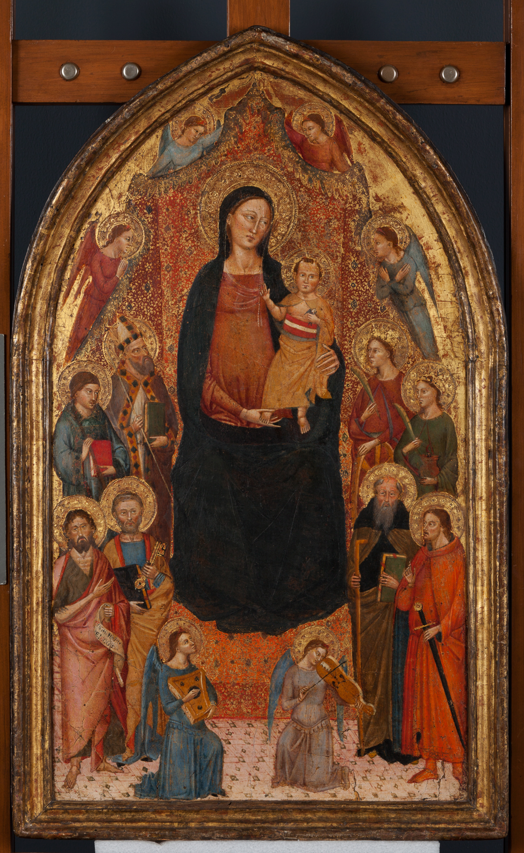 Madonna and Child Enthroned with Saints John the Baptist, Peter, Lawrance, Zenobius, Catherine of Alexandria, Lucy, Anthony Abbot and Eustace, with Angels